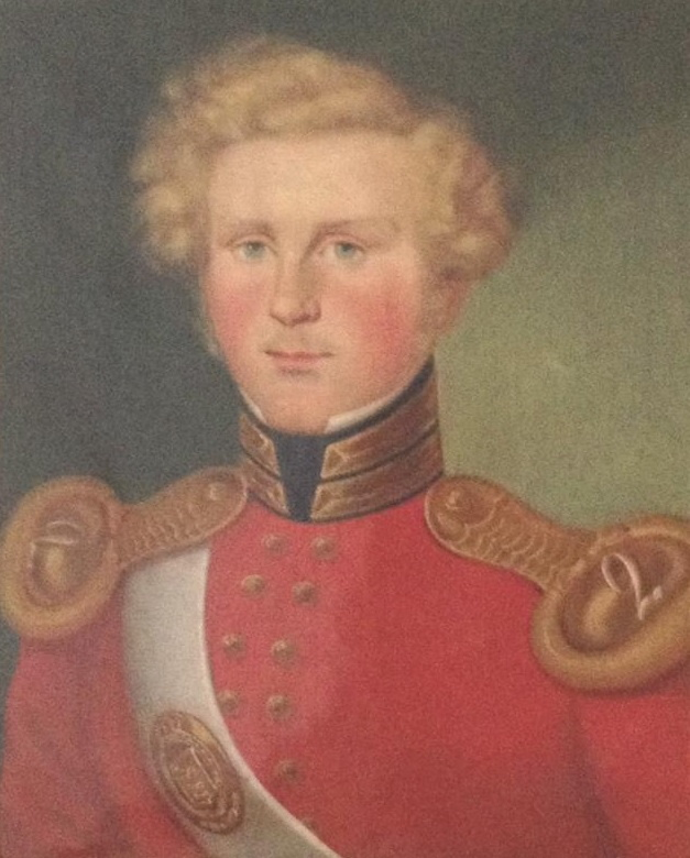 Ludwig Eberhard von der Decken (1812-1871) Major general